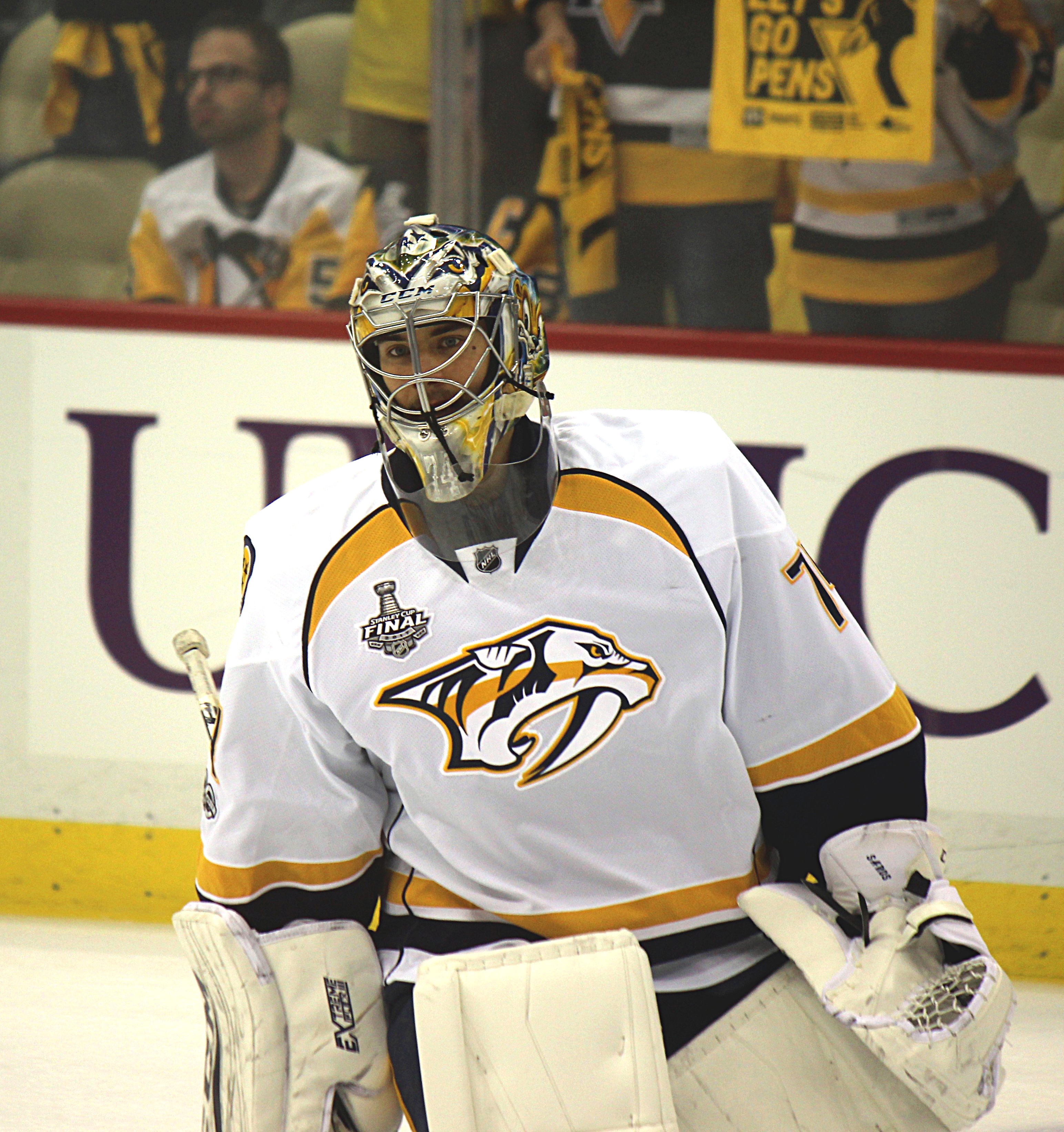 Nashville Predators backup goalie Juuse Saros prior to game 5 of the 2017 Stanley Cup Finals, June 8, 2017, against the Pittsburgh Penguins at PPG Paints Arena in Pittsburgh, PA.